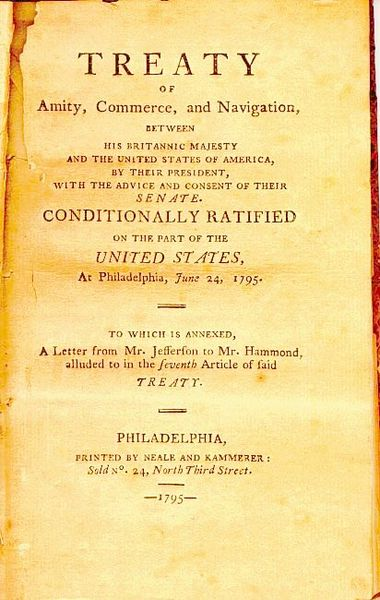 Cover of text of Jay Treaty